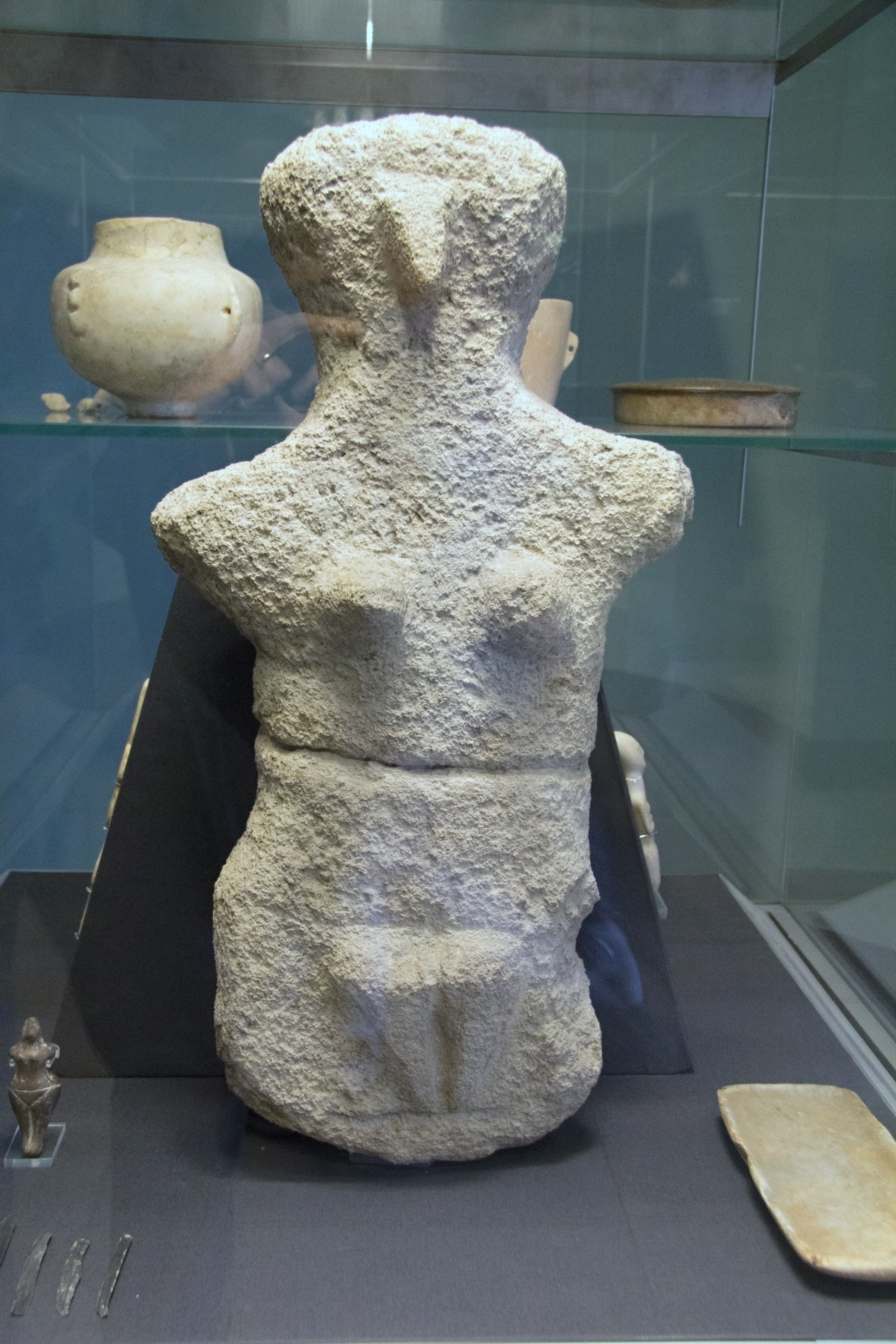 Limestone female figure from Karpathos. Late Neolithic, 4500 – 3200 BC. A precursor of Cycladic figurines. BM, GR 1886.3-10.1, Cat Sculpture A 11. (Given by J.T. Bent.)